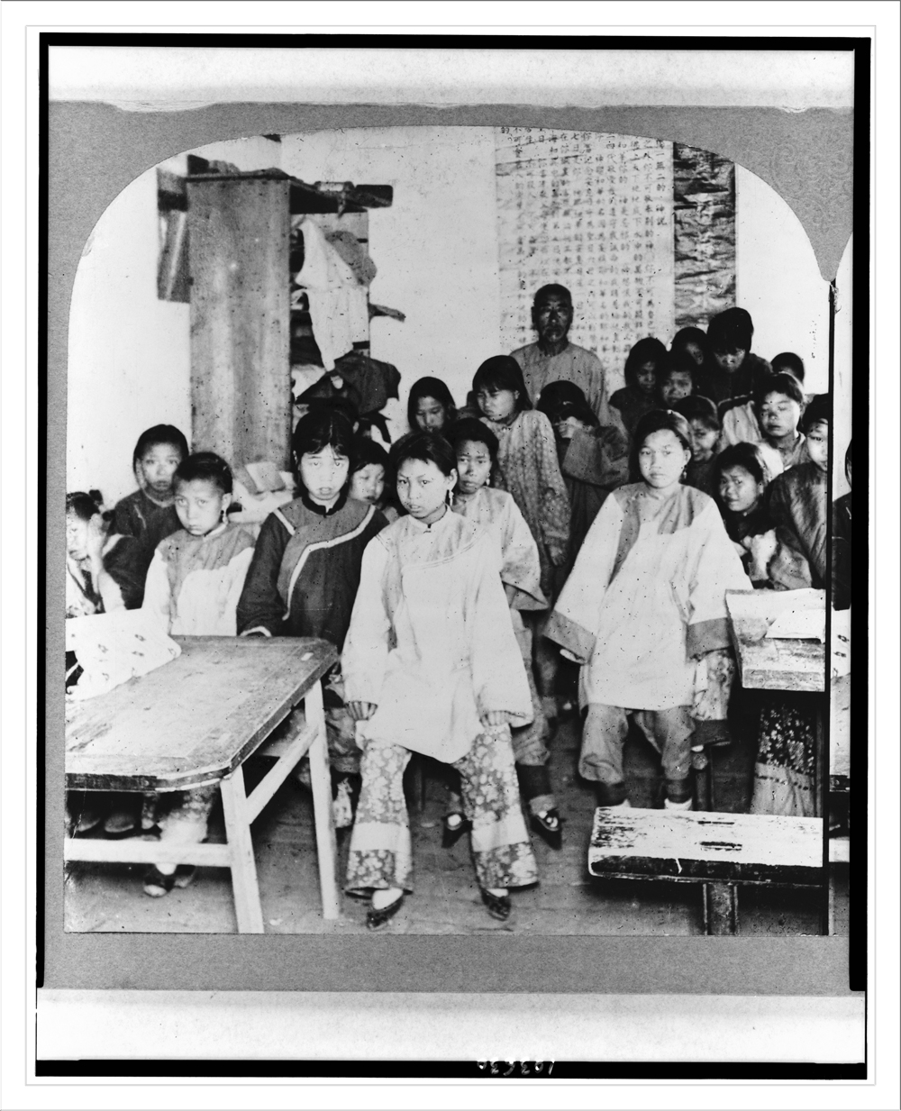 A Chinese school for girls in Che-foo, China.